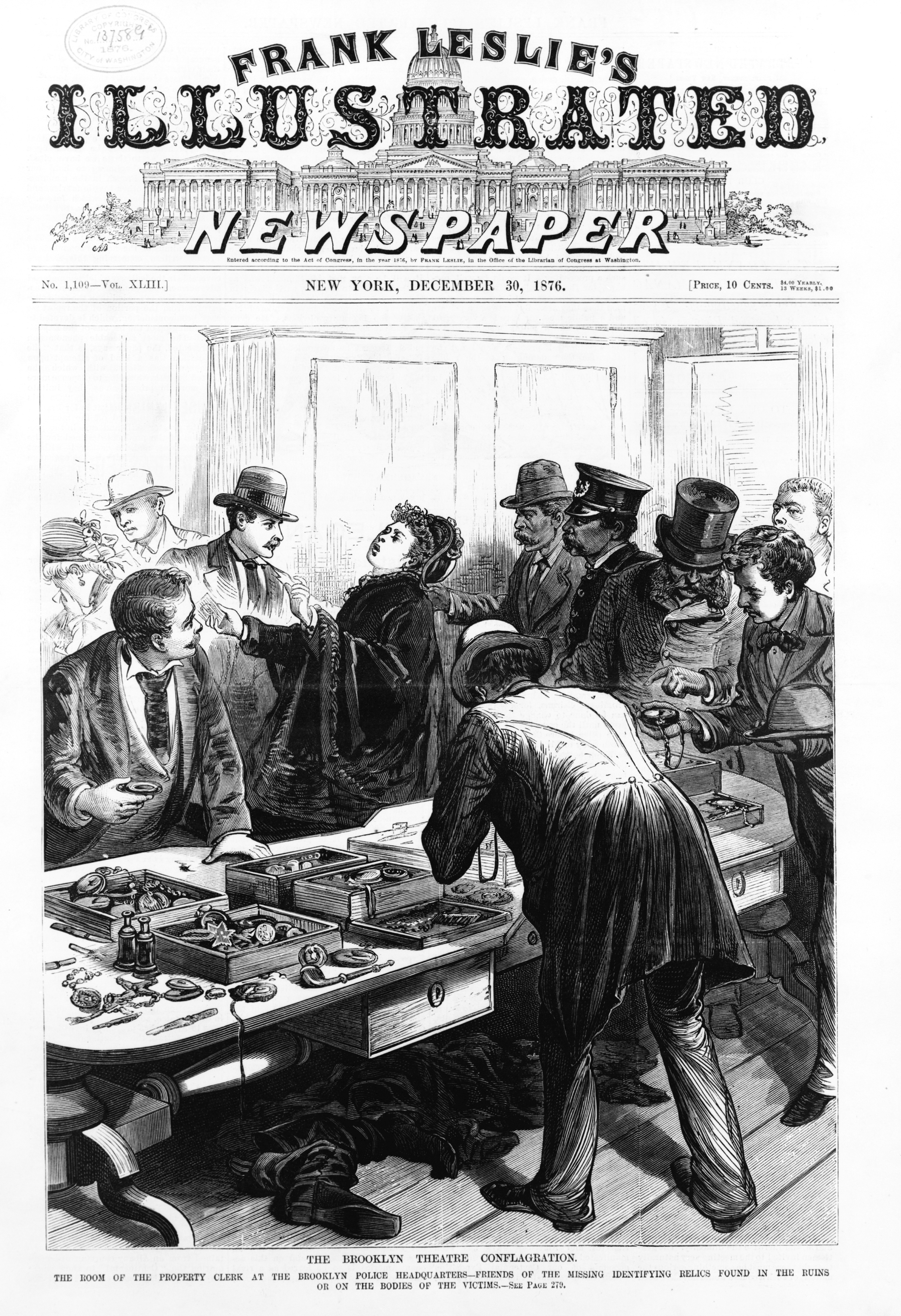 The Brooklyn Theatre conflagration--The room of the property clerk at the Brooklyn police headquarters--Friends of the missing identifying relics found in the ruins or on the bodies of the victims. December 1876, New York City